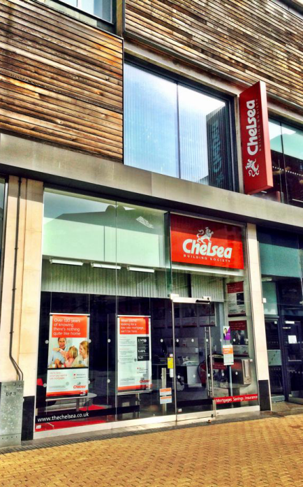 Outside a Chelsea Building Society branch in Bristol England